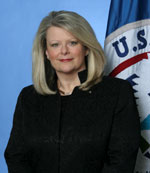 Portrait of Gale Rossides, former TSA Deputy Administrator and Acting Administrator